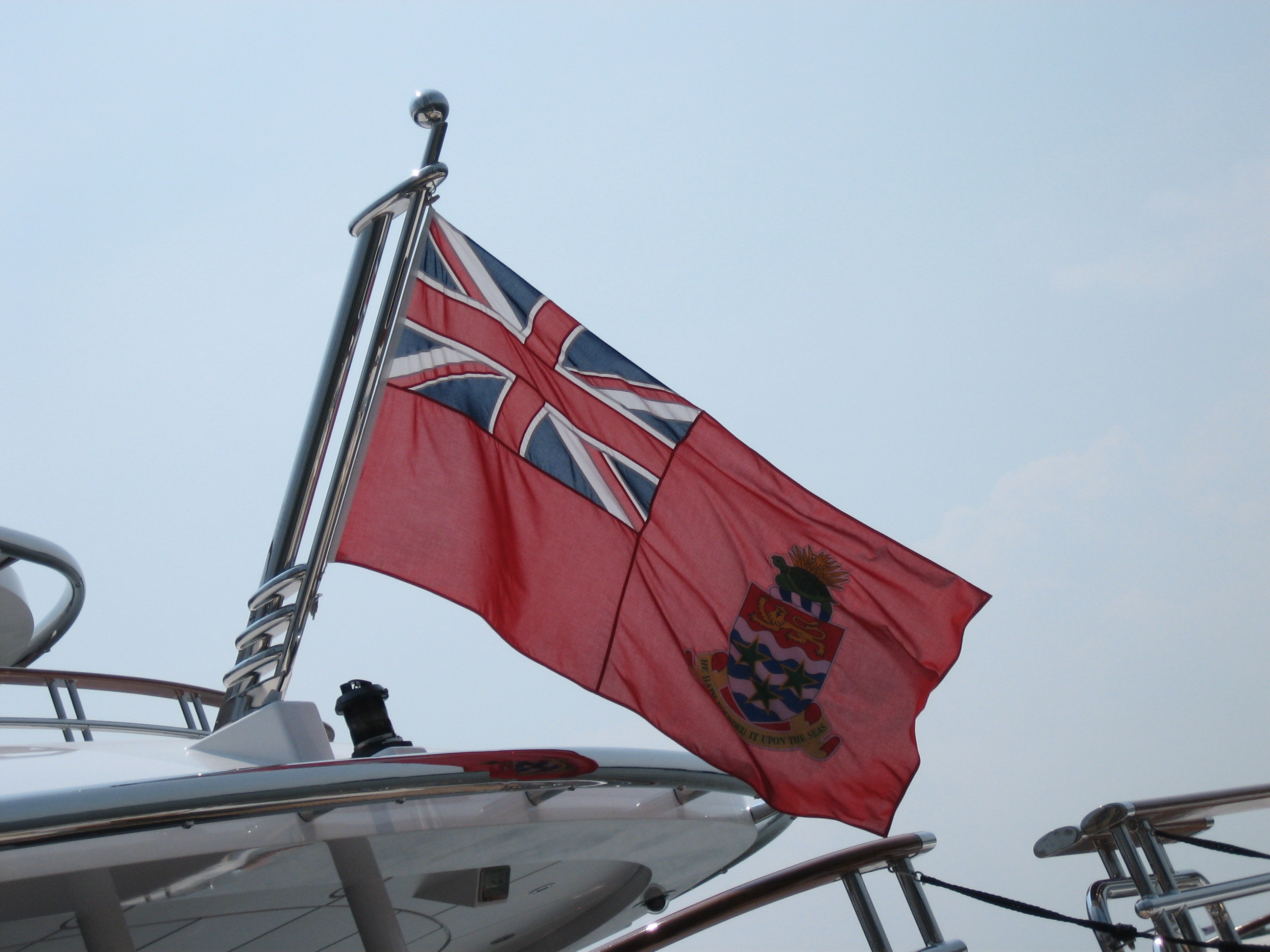 On the huge yacht.